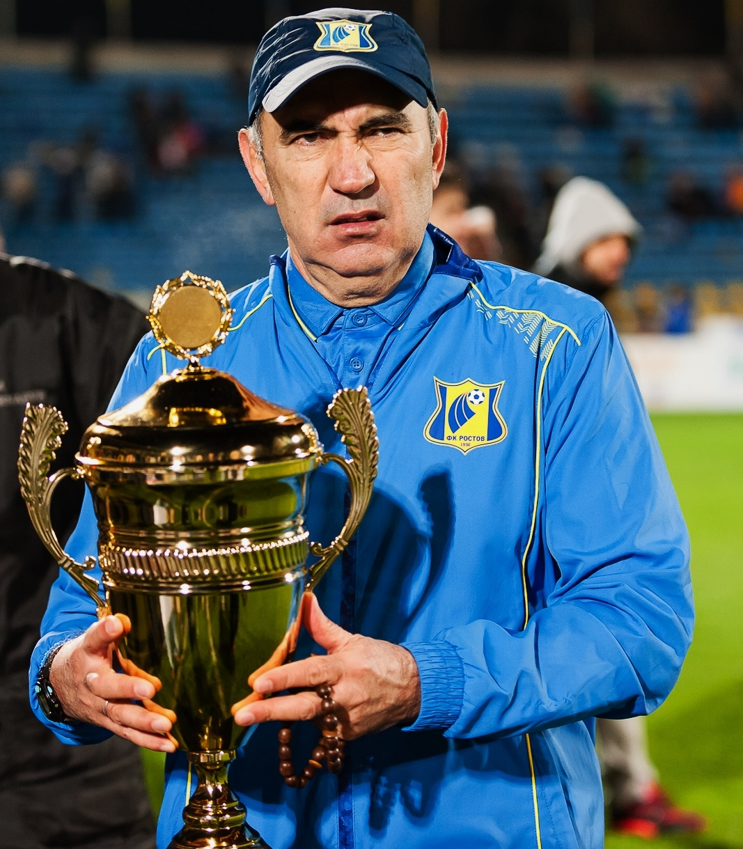 Gurban Berdiýew